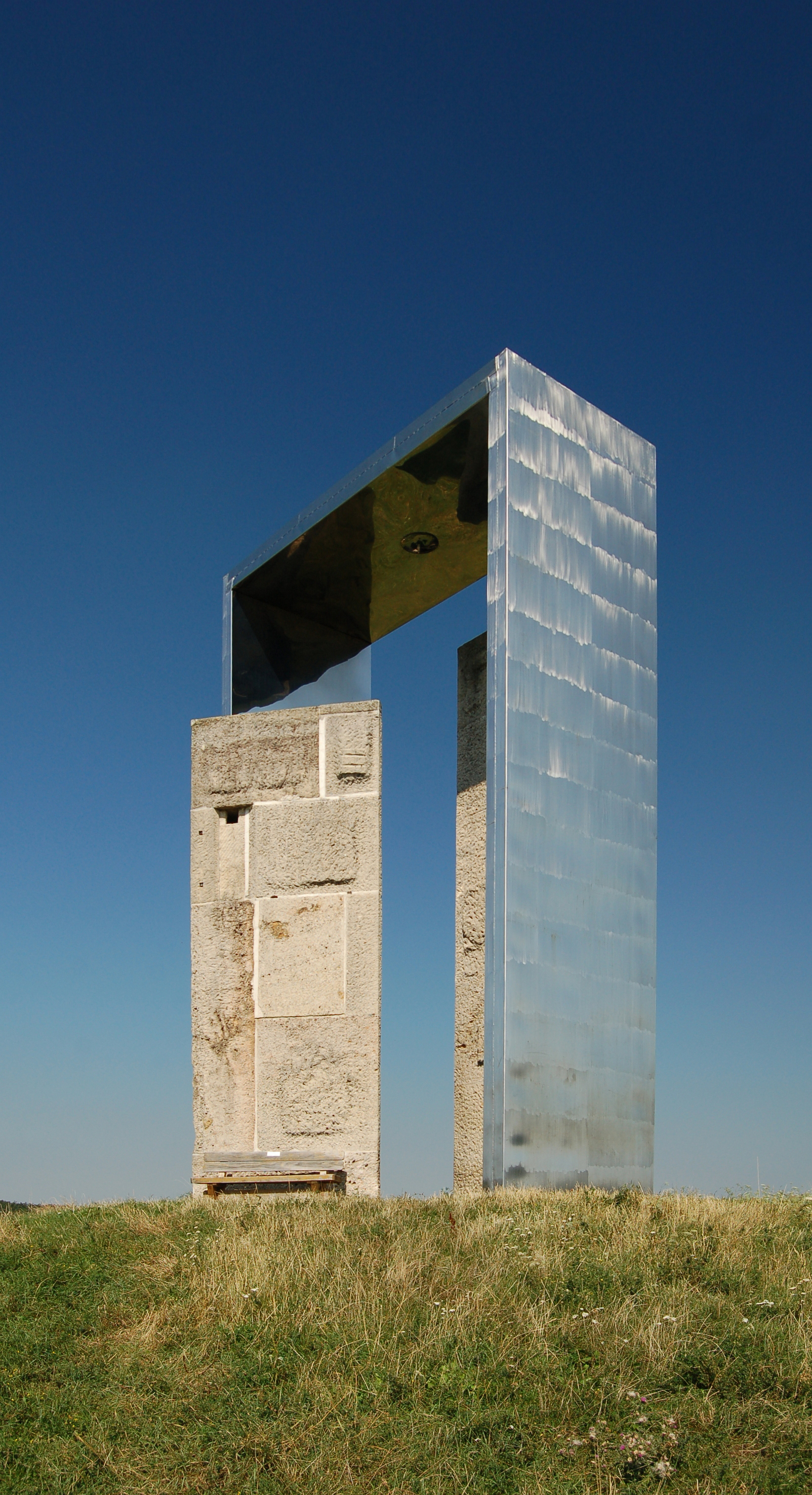 "Tor der Erkenntnis" (Door of insight), 1988, collective work in Symposion Lindabrunn, Lower Austria.